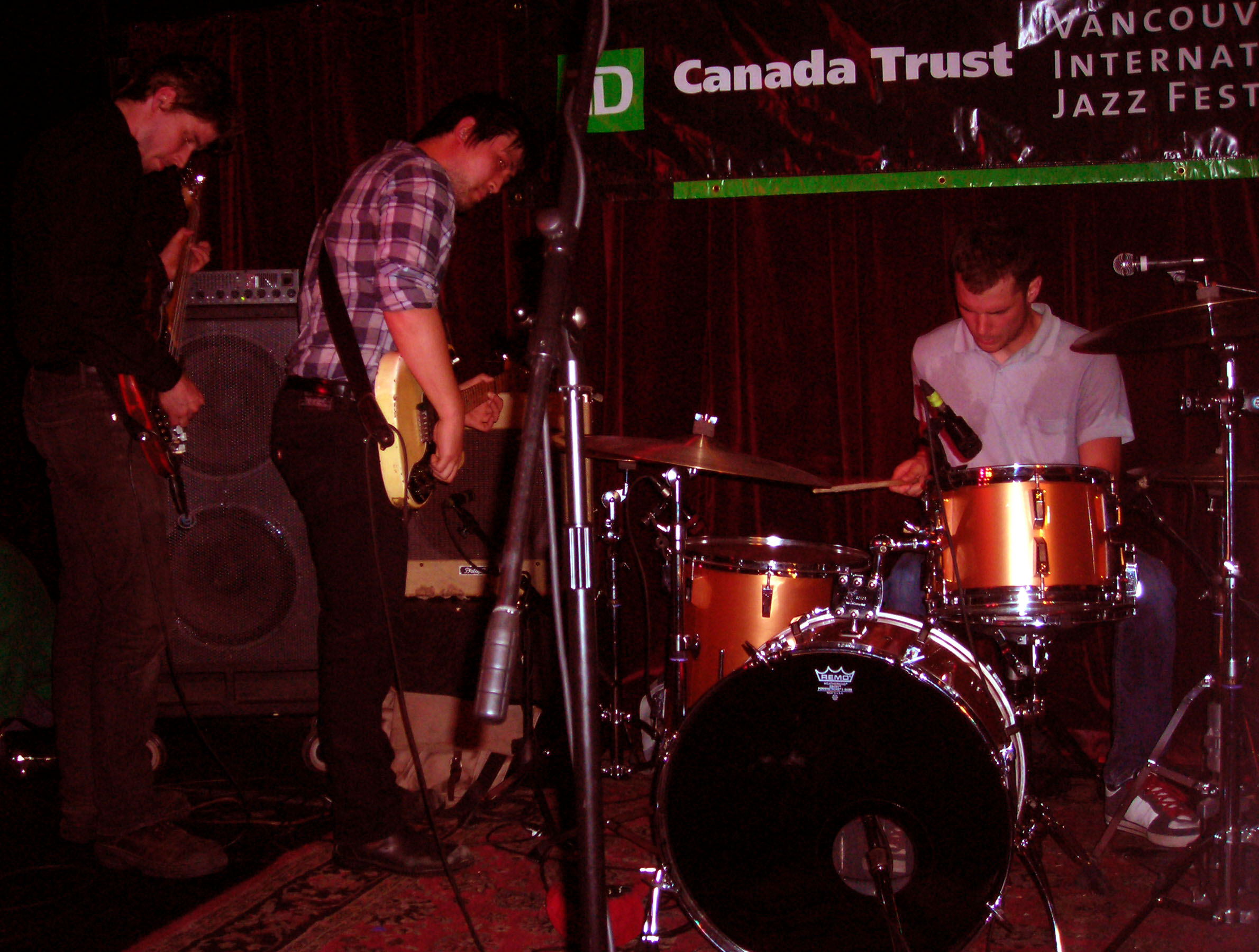 Bassist Ryan Flowers, lead singer Andrew Lee and drummer Steve Watts (left to right) of Vancouver indie rock band in medias res warming up before a show at the Media Club in Vancouver.